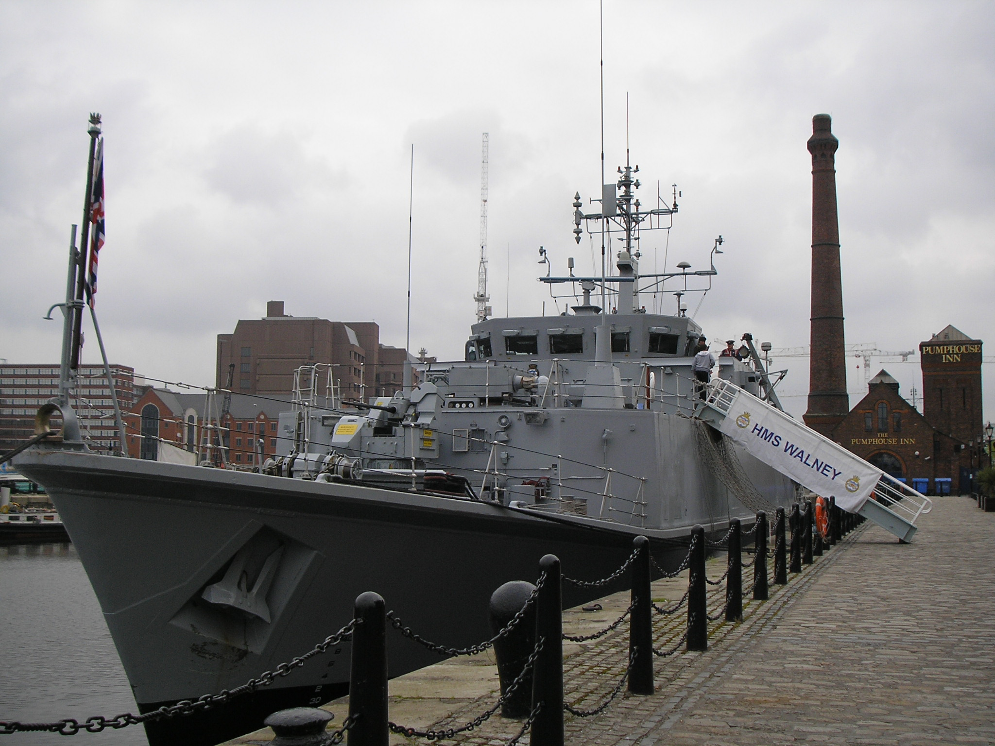 HMS Walney berthed at Albert Dock in Liverpool.